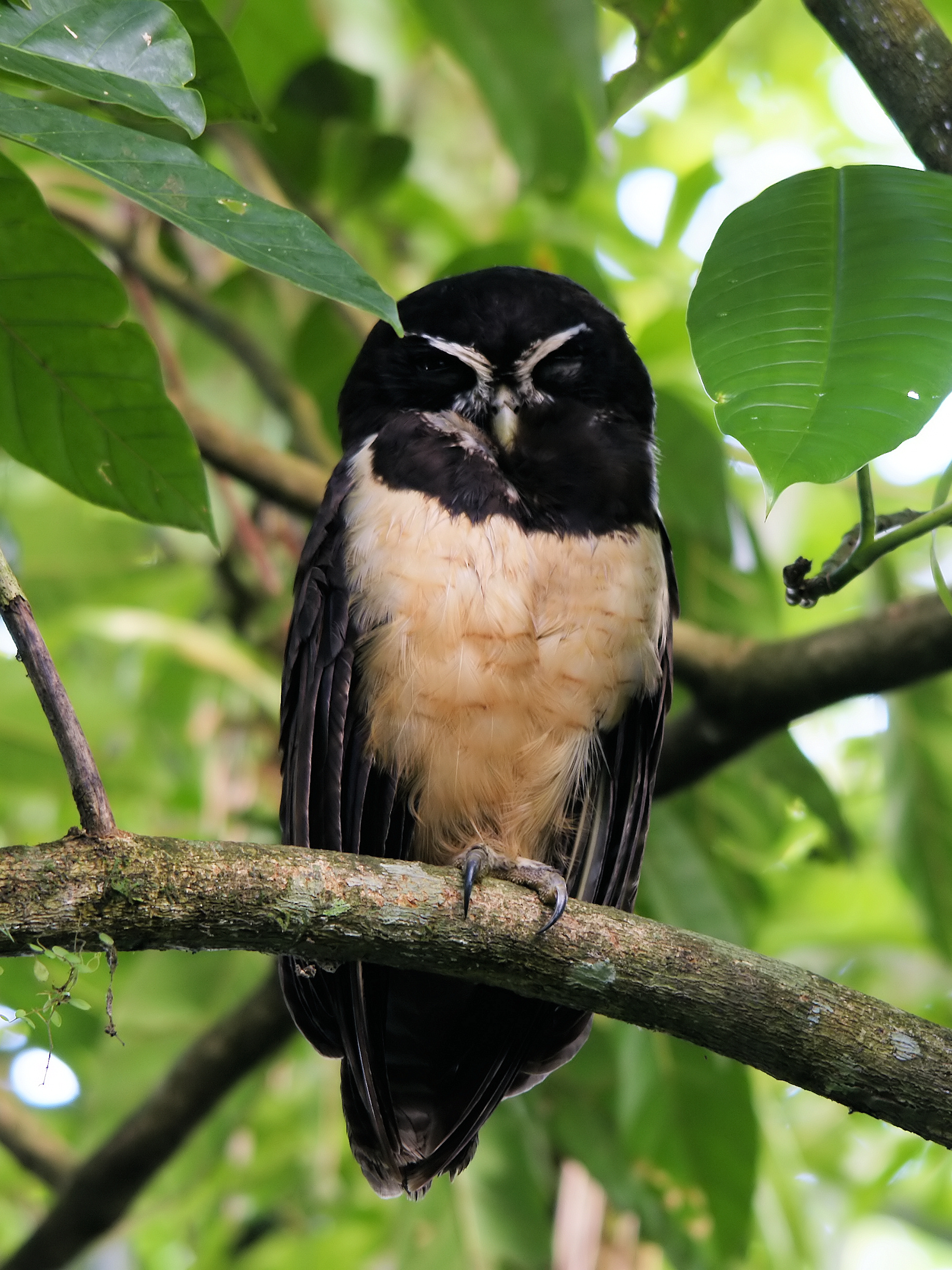 Spectacled Owl near Las Horquetas, Costa Rica